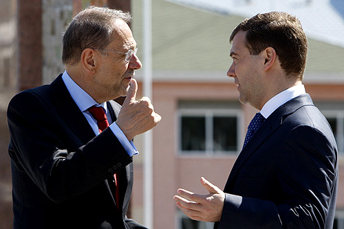 Javier Solana (left), former European Union High Representative, with Dmitry Medvedev (right), President of Russia.